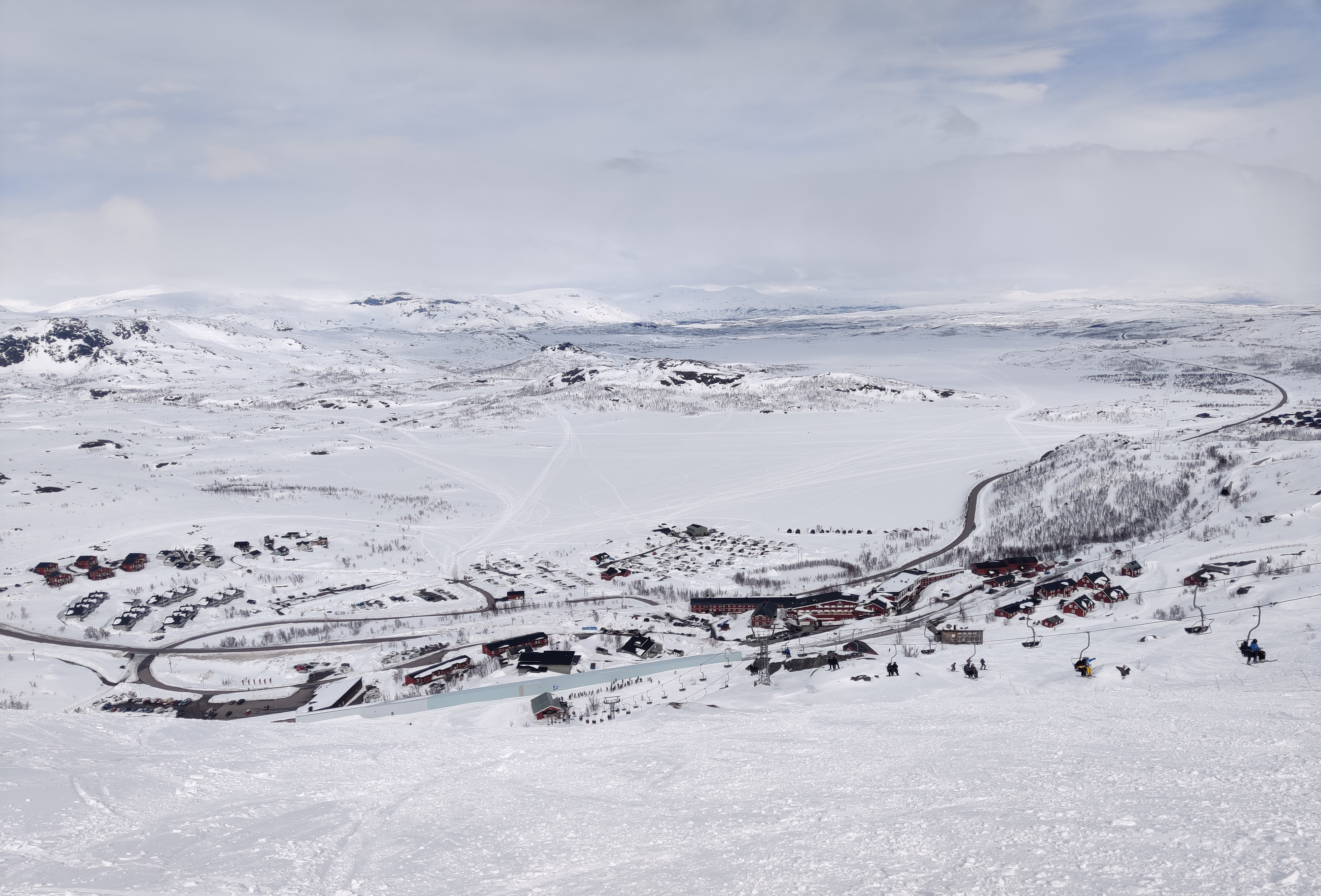 The village Riksgränsen with surroundings in Northern Sweden, May 2020. The village, road, railroad and chairlift can be seen.